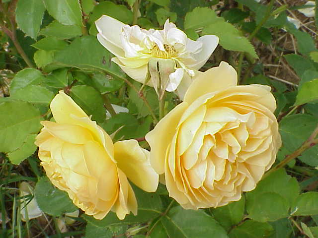 Species: Rosa sp. Family: Rosaceae Cultivar: Graham Thomas, Austin 1983 Image No. 132